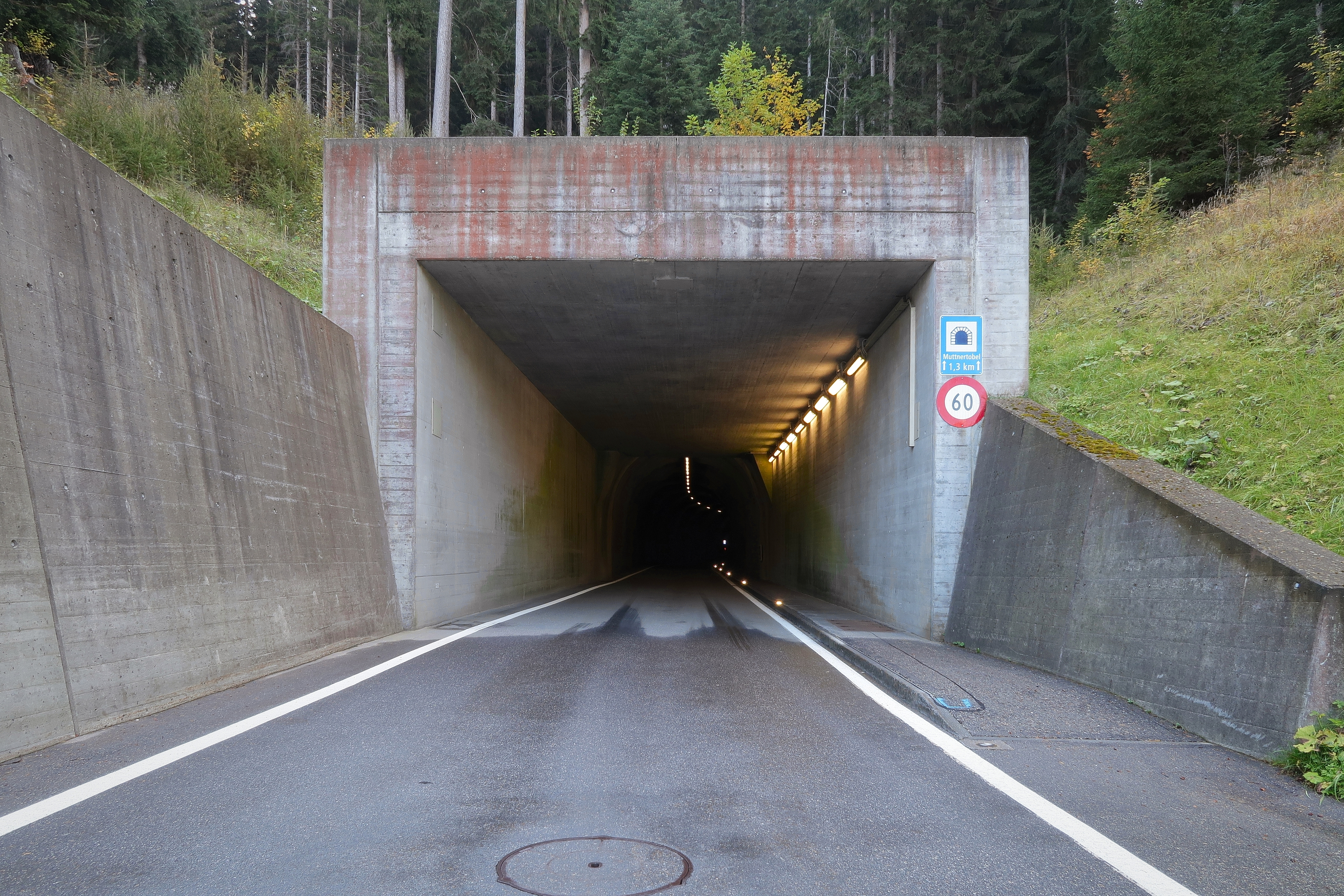 The lower portal in the north on the road to Mutten. The tunnel has a slope of 3-4%. After 60 m, a slight curve begins to the right. Switzerland, Okt 10, 2018. (2/26)